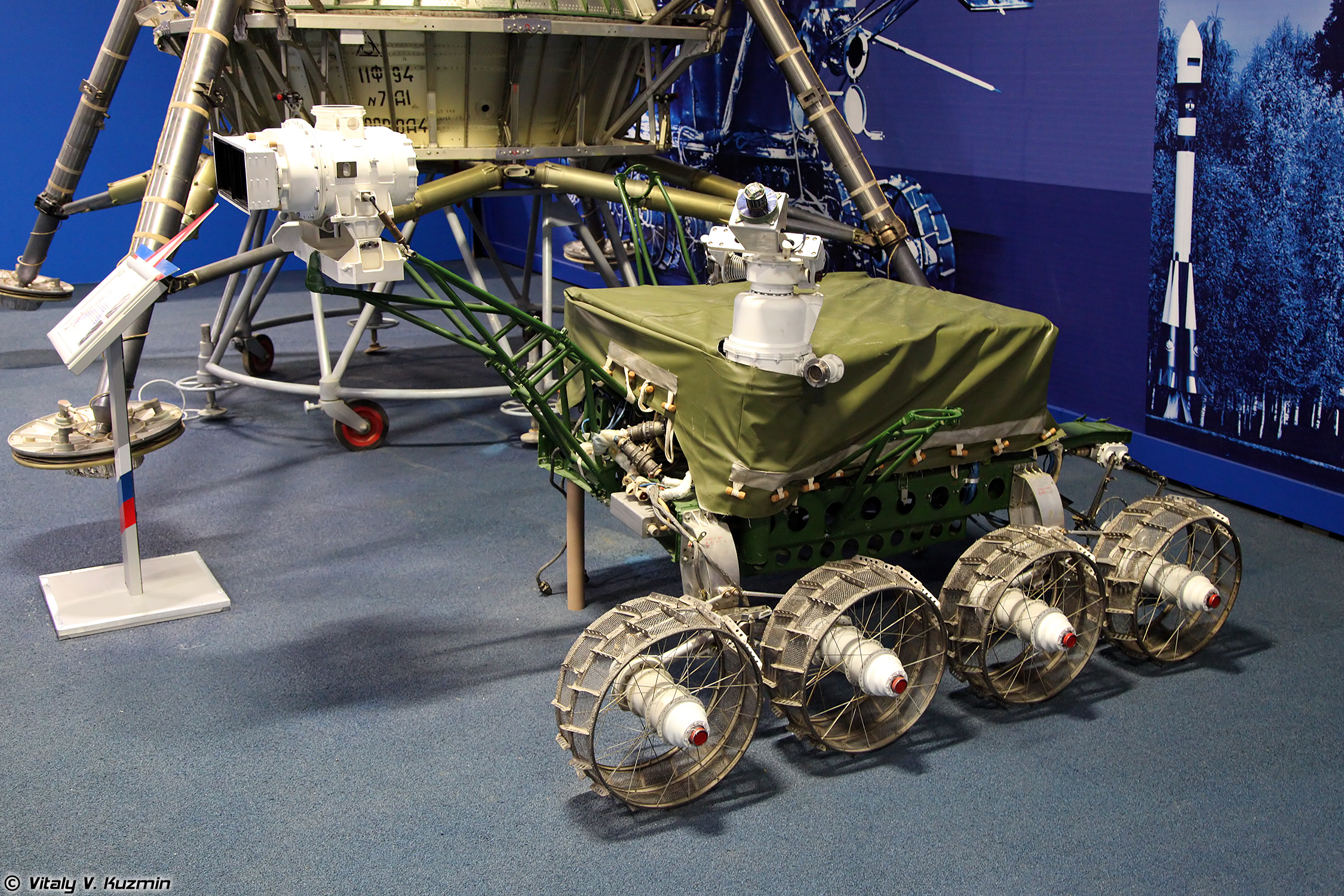 Ye-8 lunar rover - Park Patriot